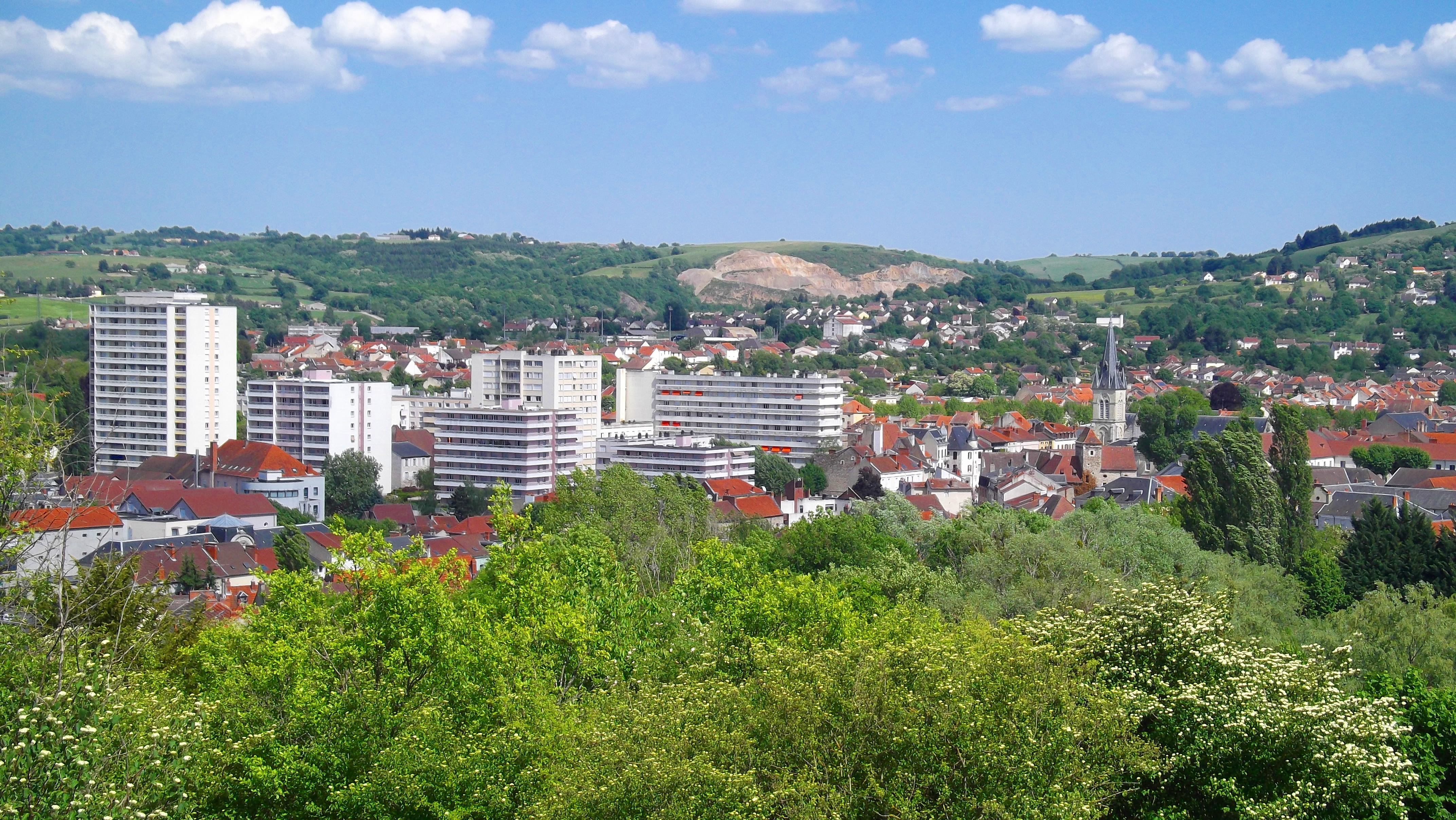 View of the Cusset center since Montbeton